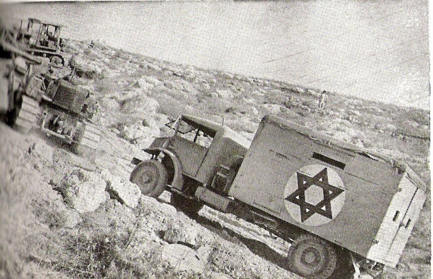 according to the Israel national photo collection A BULLDOZER tows A truck ON THE "BURMA" ROAD TO JERUSALEM, date 14/06/1948, photographer:Hans Pinn Ykantor Ykantor (talk) 16:02, 8 December 2013 (UTC)